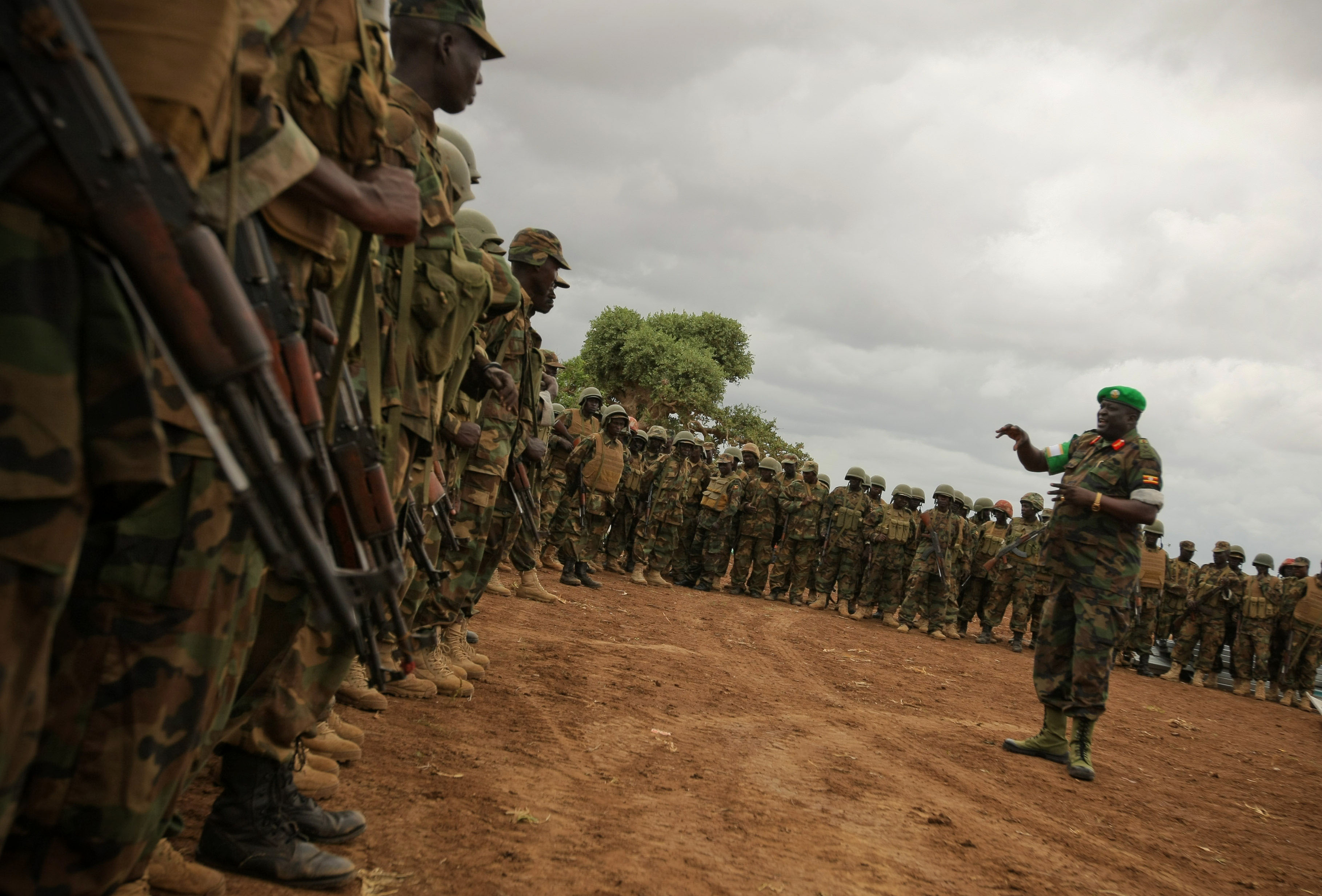 African Union Mission in Somalia (AMISOM) Force Commander Lt. Gen. Andrew Gutti addresses Ugandan soldiers serving with the AU operation 5 June in Afgoye located 30km to the west of the Somali capital Mogadishu. AMISOM supporting Somali National Army (SNA) forces recently liberated the Afgoye Corridor from the Al Qaeda-affiliated extremist group Al Shabaab, pushing them further away from Mogadishu and opening up the free flow of goods and produce between the fertile agricultural area surrounding Afgoye and the Somali capital. AU-UN IST PHOTO / STUART PRICE.